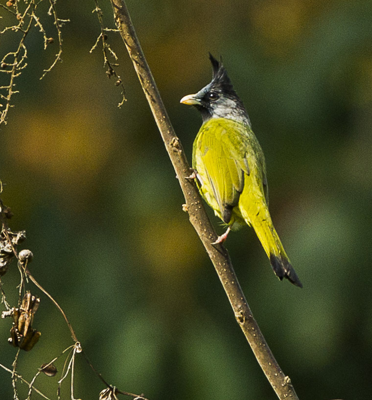 Crested Finchbill - Thailand_S4E0323